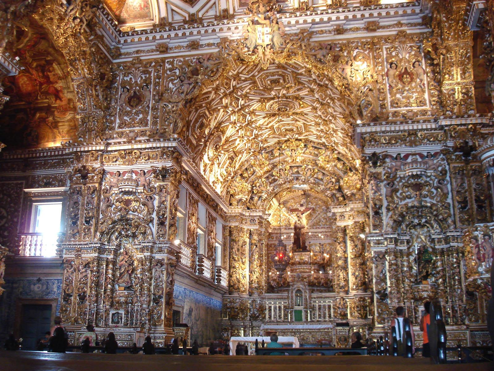 Interior of Sao Francisco Church in Salvador, Bahia, Brazil